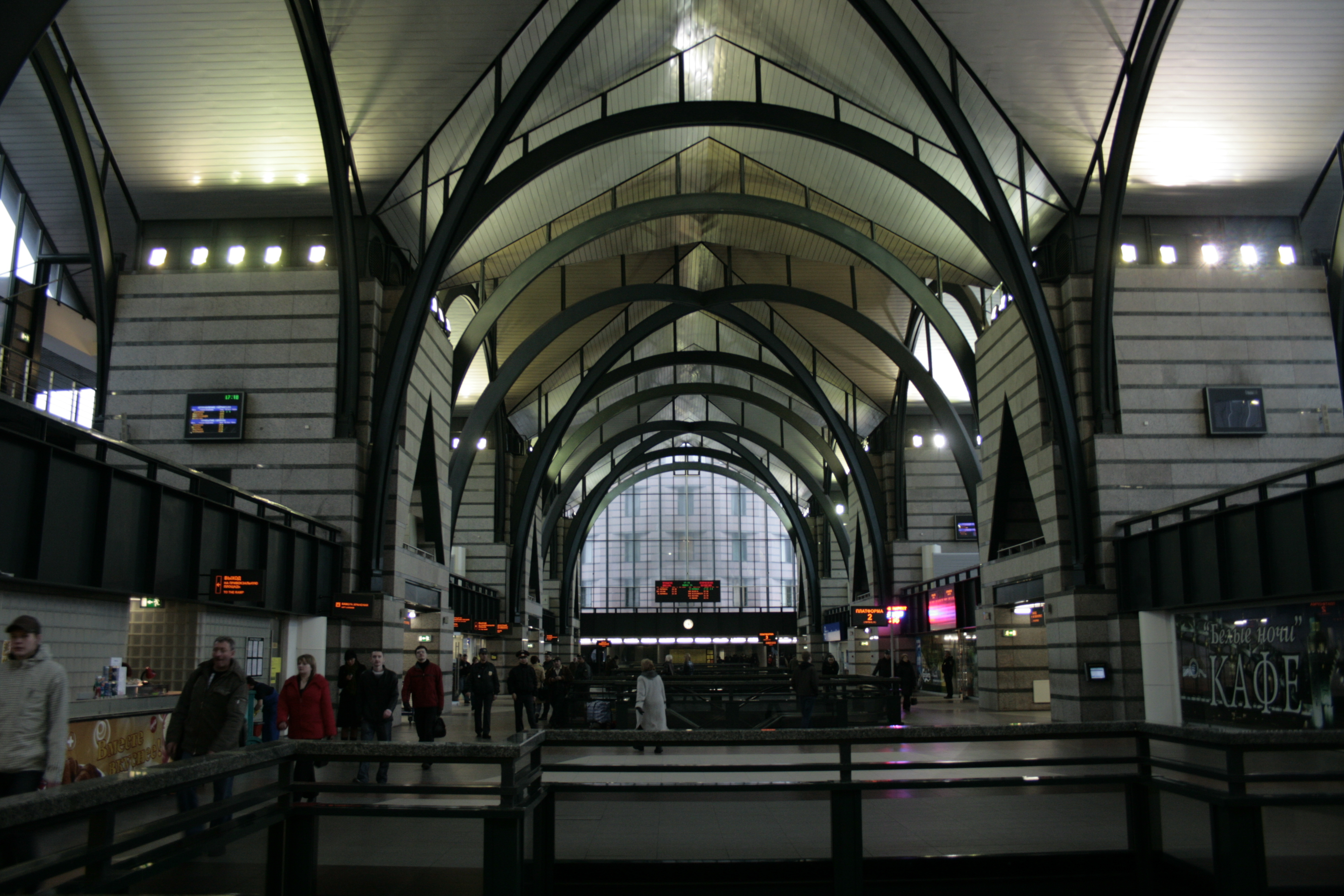 The central hall in Ladozhsky Rail Terminal (Saint Petersburg)